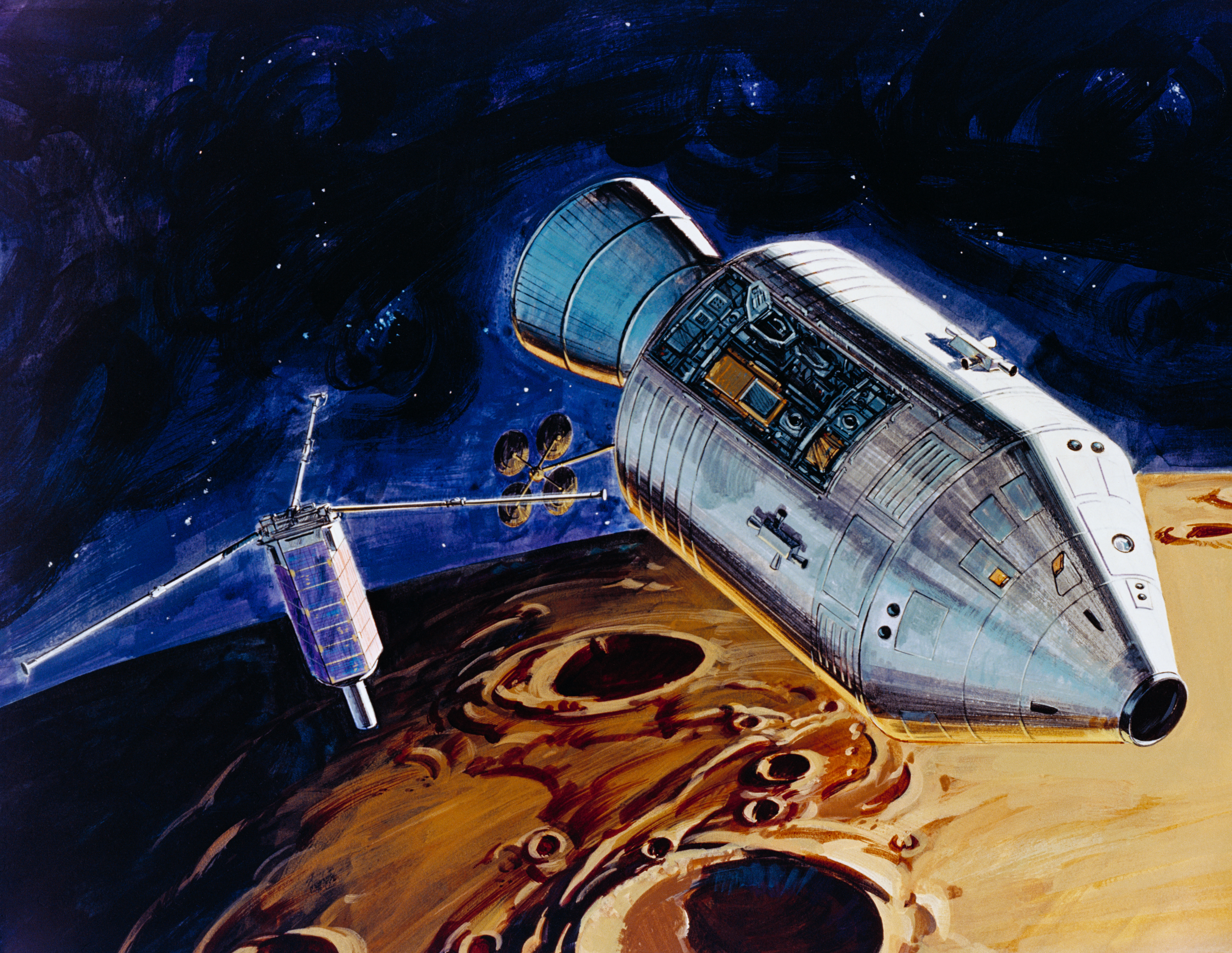 An artist's concept showing TRW's small lunar subsatellite being ejected into lunar orbit from the SIM bay of the Apollo 15 Service Module. The 80-pound satellite will remain in orbit a year or more, carrying scientific experiments to study space in the vicinity of the moon. The satellite carries three experiments: S-Band Transponder; Particle Shadows/Boundary Layer Experiment; and Subsatellite Magnetometer Experiment. The subsatellite is housed in a container resembling a rural mailbox, and when deployed is spring-ejected out-of-plane at 4 fps with a spin rate of 140 rpm. After the satellite booms are deployed, the spin rate is stabilized at about 12 rpm. The subsatellite is 31 inches long and has a 14 inch hexagonal diameter. The exact weight is 78.5 pounds. The folded booms deploy to a length of five feet. Subsatellite electrical power is supplied by a solar cell array outputting 25 watts for dayside operation and a rechargeable silver-cadmium battery for nightside passes.